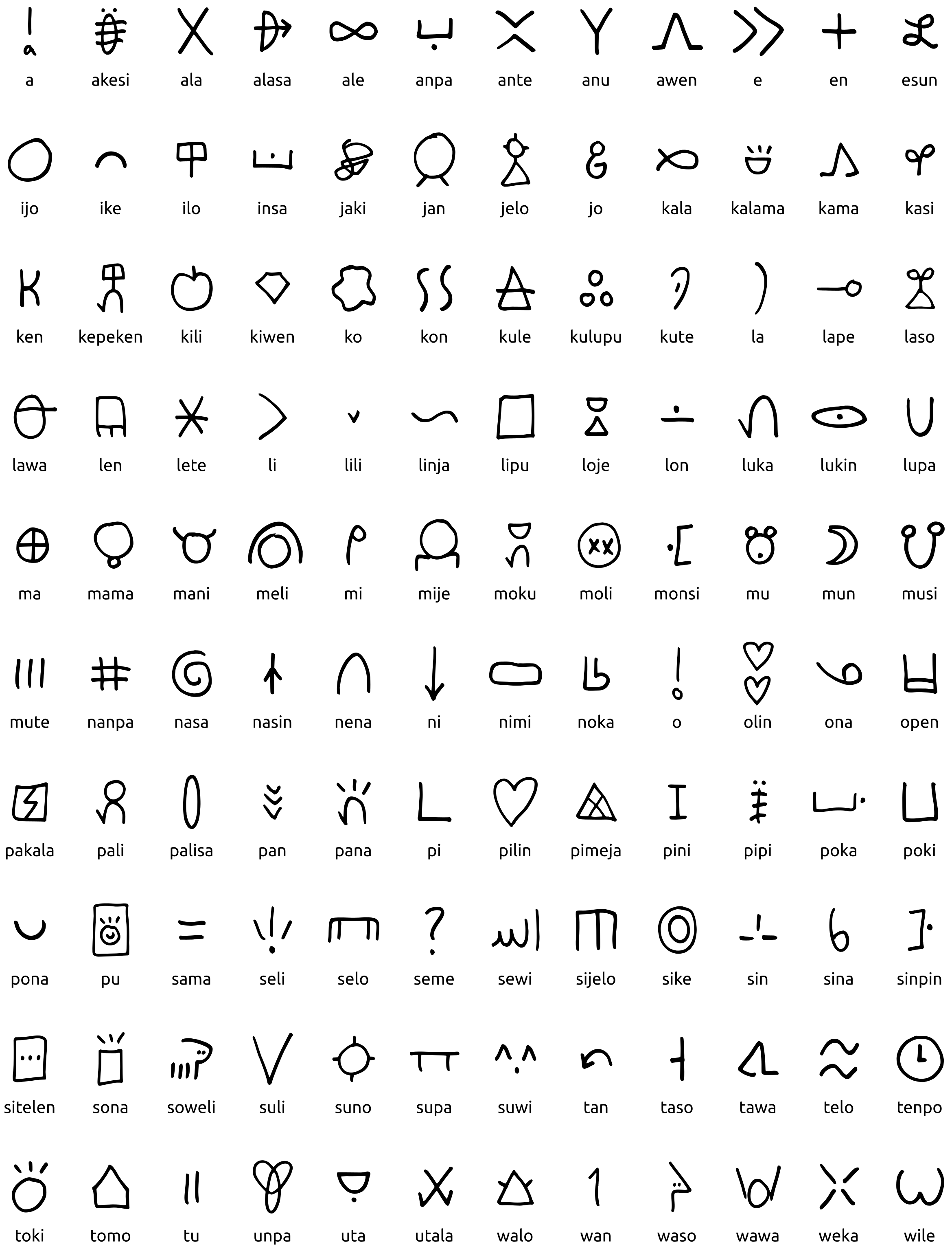 Sonja Lang published the writing system "sitelen pona" in her book Toki Pona: The Language of Good. It was designed for the conlang toki pona.